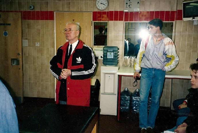 Home team's gatorade at Old Trafford in 1992. (use it free)